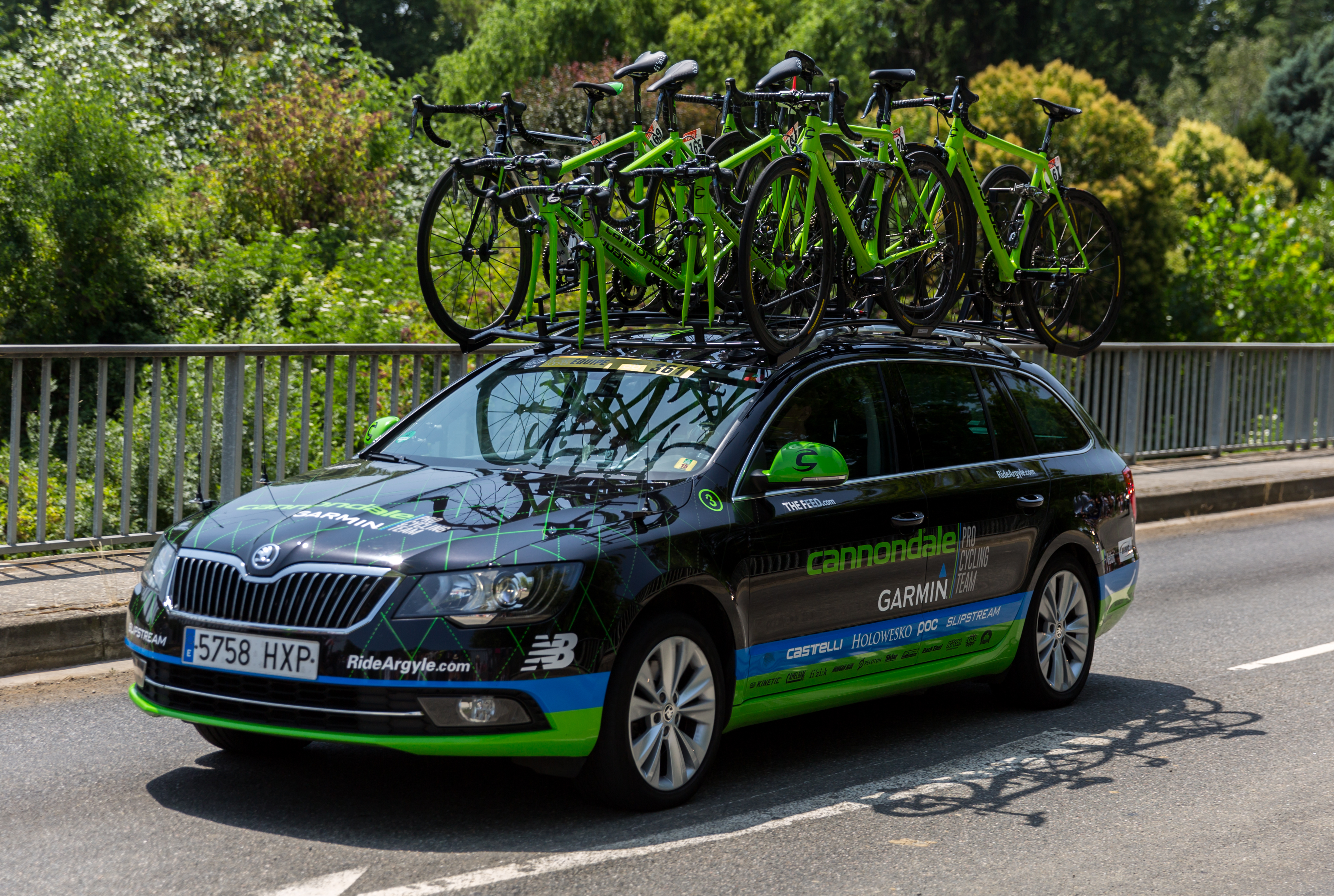 Car of Cannondale-Garmin team behind the peloton.